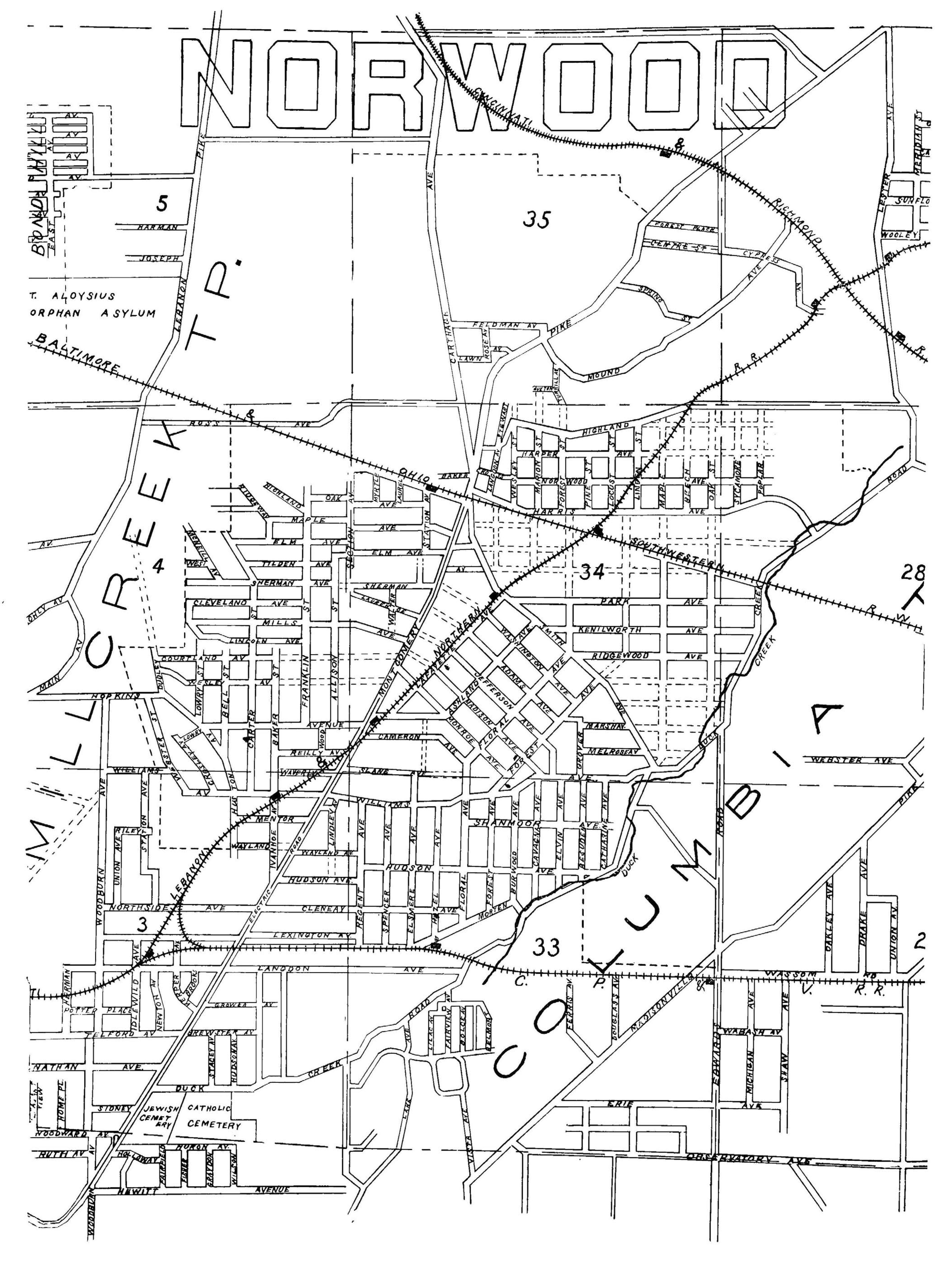 An original street map of Norwood, Ohio c. 1888 when the city was first incorporated as a village.